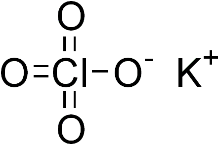 chemical structure of potassium perchlorate